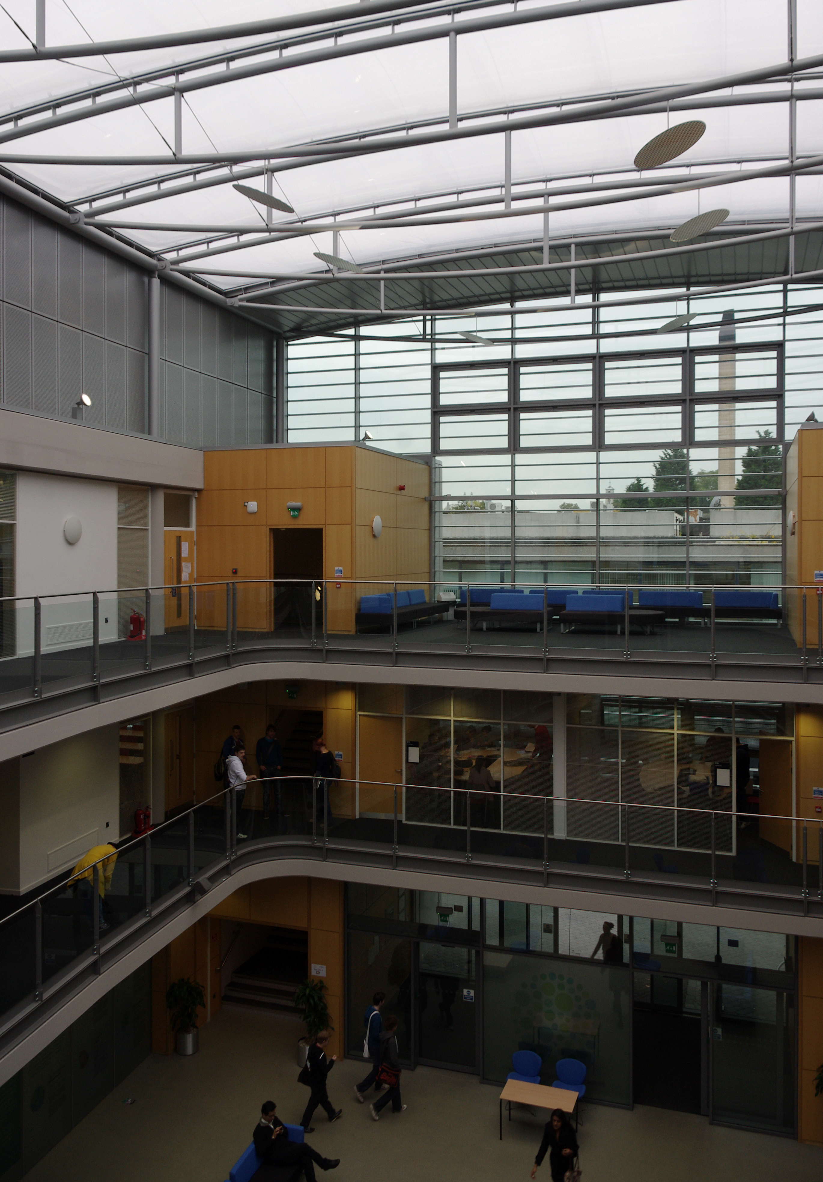 Inside the Engineering and Science Learning Centre on University Park, Nottingham.